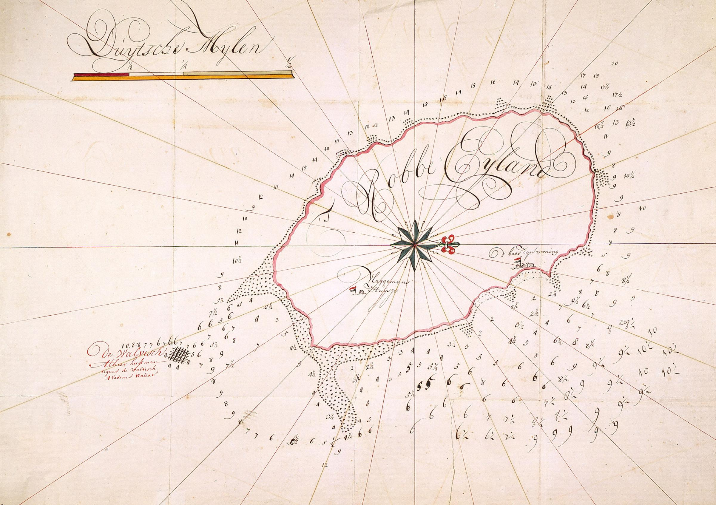 According to the Leupe catalogue (NA), the original title reads: Kaart van het Robben Eyland met opgave der dieptens enz. (Map of Seal Island with specification of the depths etc.). The chart marks the location where the ship 'De Walvis' (The Whale) sank, at a depth of 7.3 m. Terms indicated on the chart: t Robbe Eijland (Seal Island), D'baas zijn woning (House of the Boss), Vlaggemans Huijsje (Small house of the man with the flag) and Duijtsche Mijlen (German miles, 7407.41 meter, the scale bar indicates 1/2 DM = 3704 m).